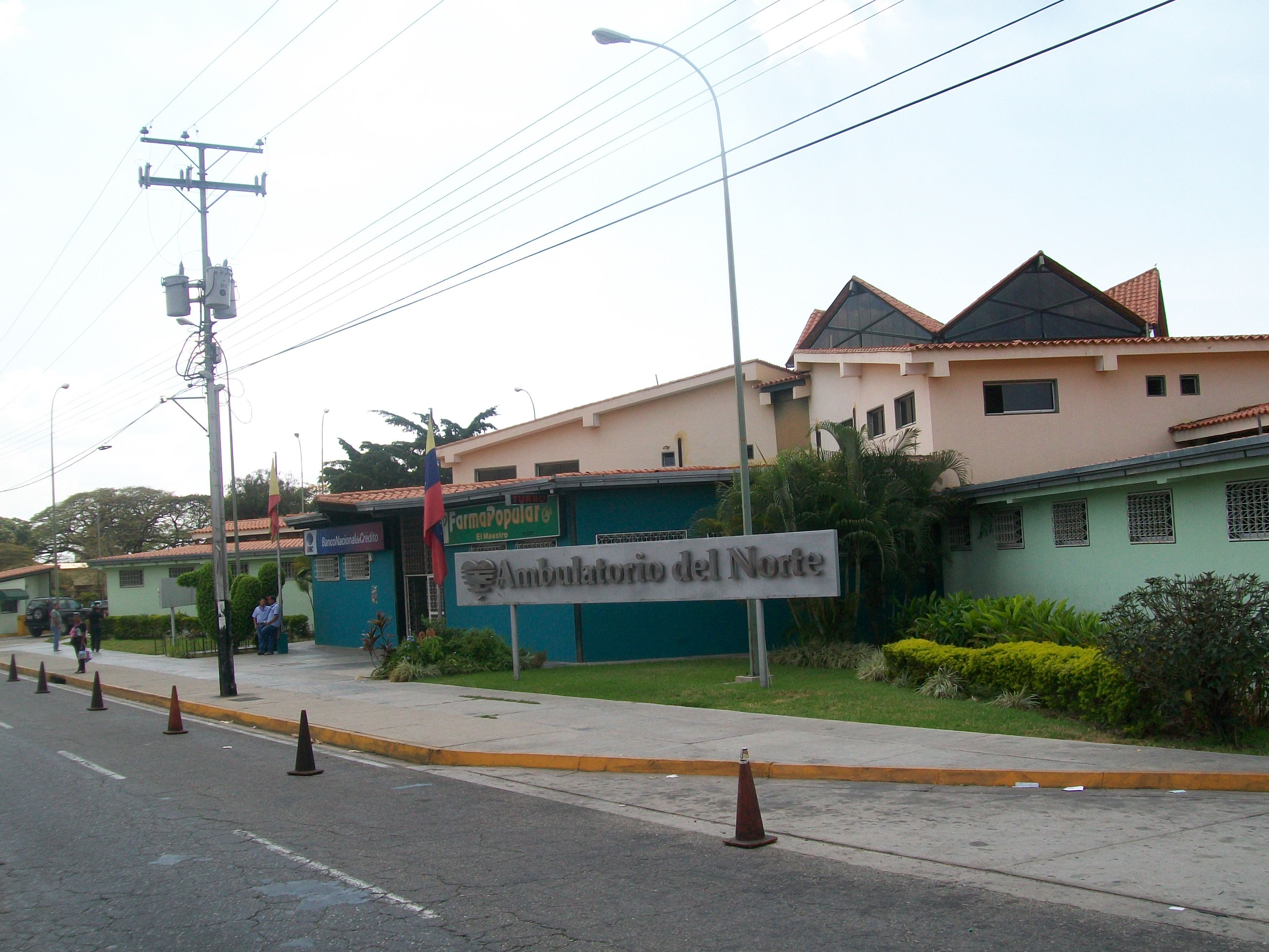 Ambulatorio del Norte, north east side, a primary health care facility in northern Maracay, Venezuela.